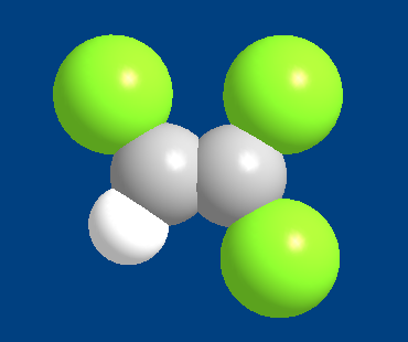 Space-filling model of the chemical compound trichloroethylene.